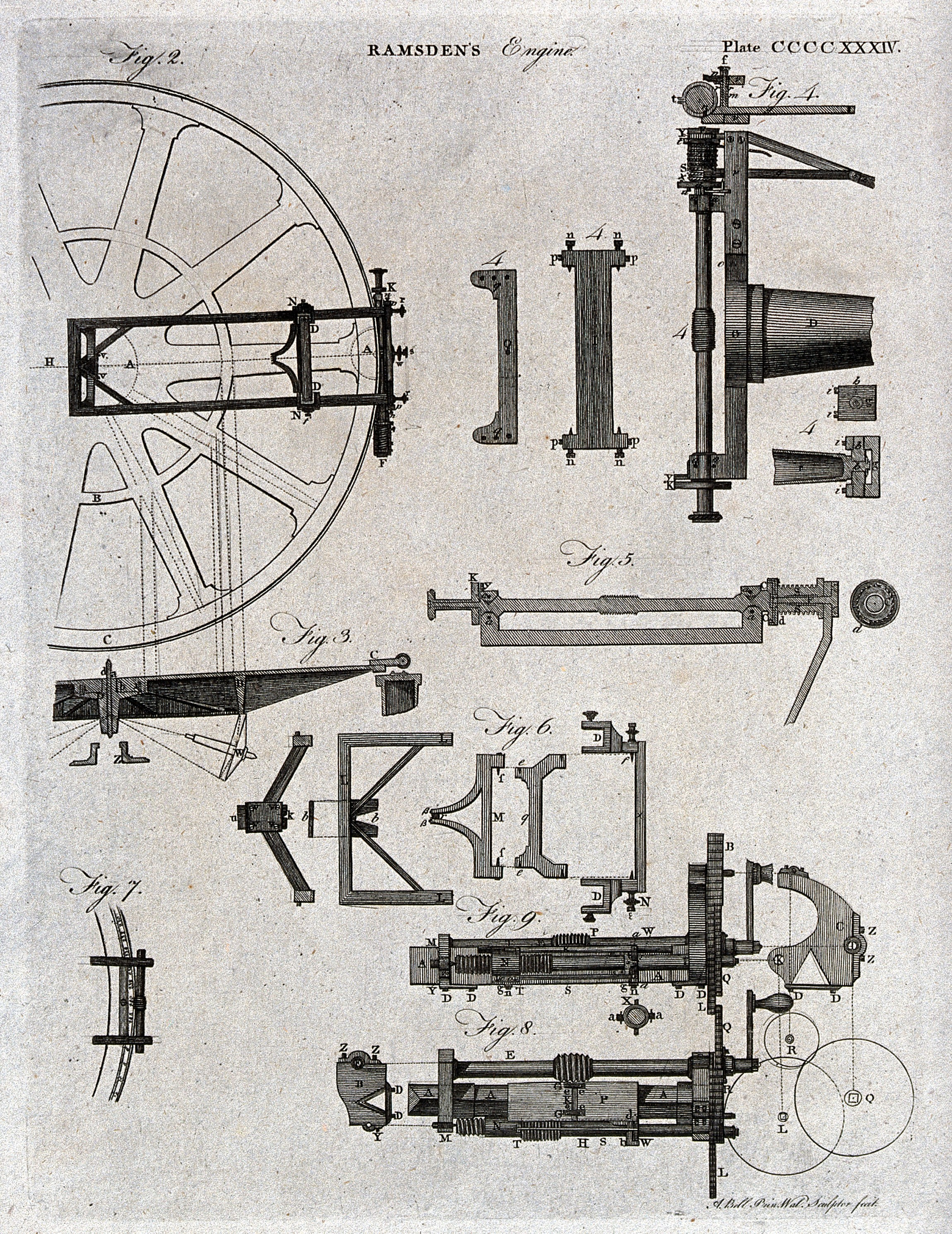 Mathematics: details of a dividing engine for making mathematical instruments. Engraving by A. Bell. Iconographic Collections Keywords: Andrew Bell; Ramsden